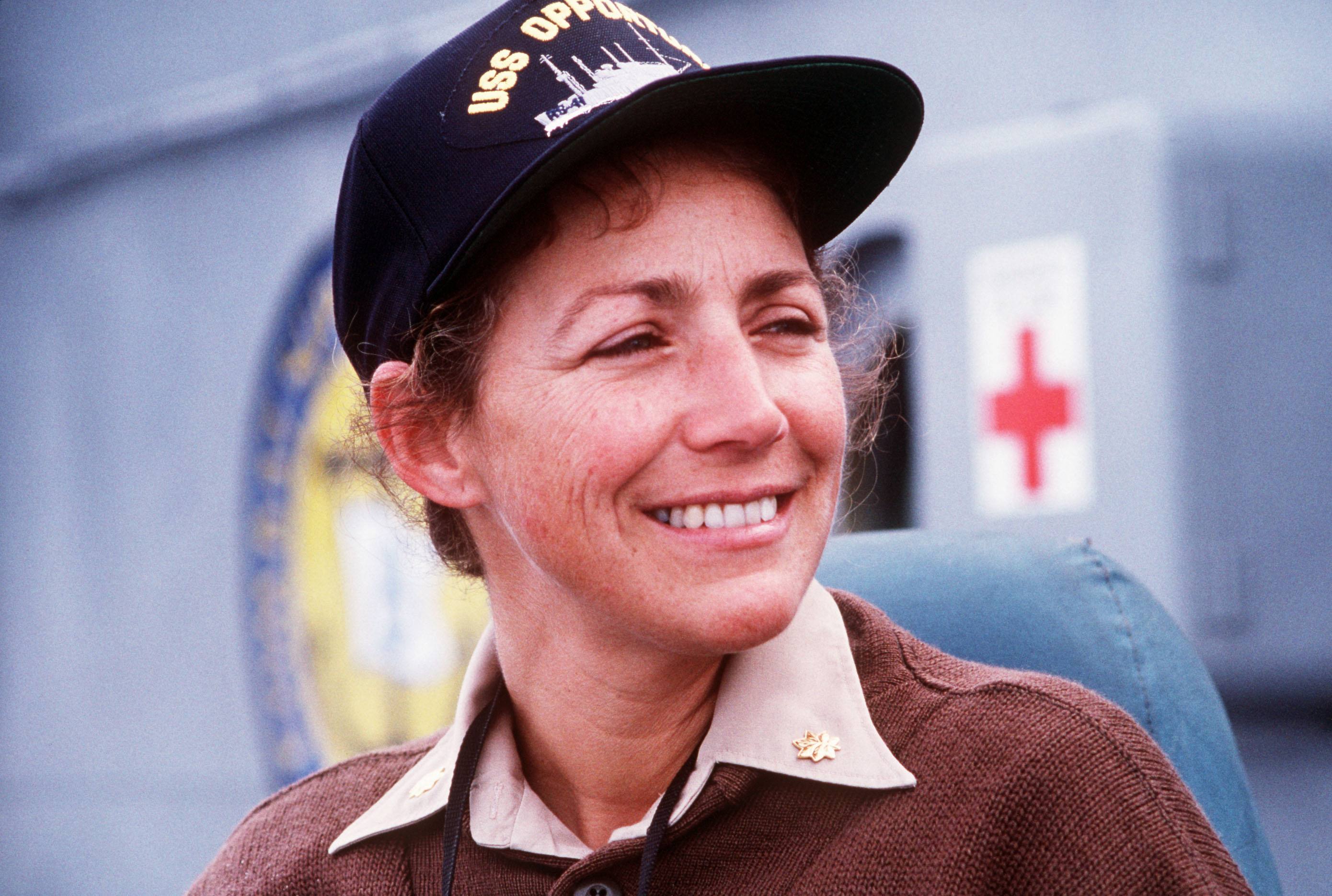 LCDR Darlene M. Iskra smiles for the camera shortly after her appointment as commanding officer of the salvage ship USS OPPORTUNE (ARS-41). Iskra's appointment represents the first time that a woman has been assigned to command a U.S. Navy ship.